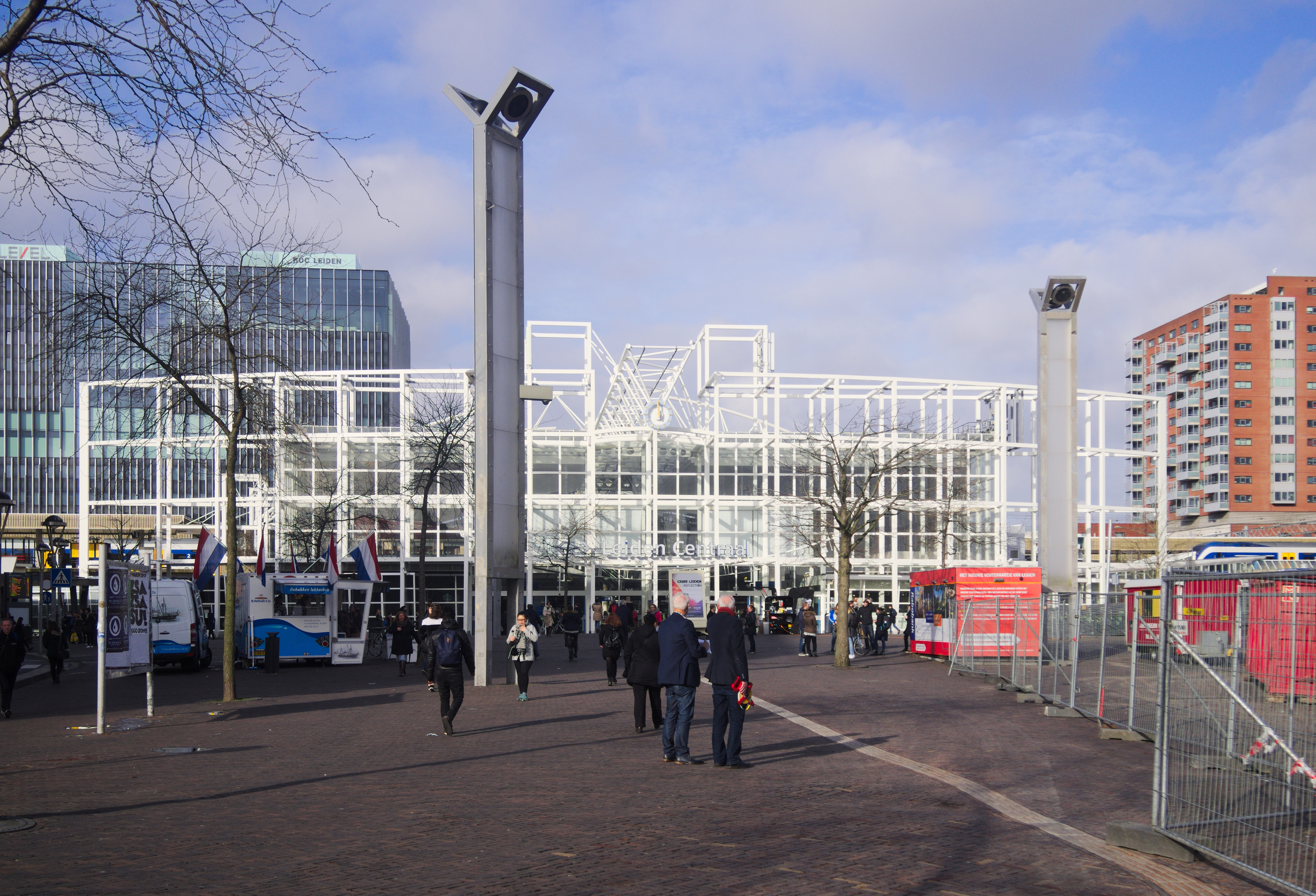 The facade of Leiden central station.